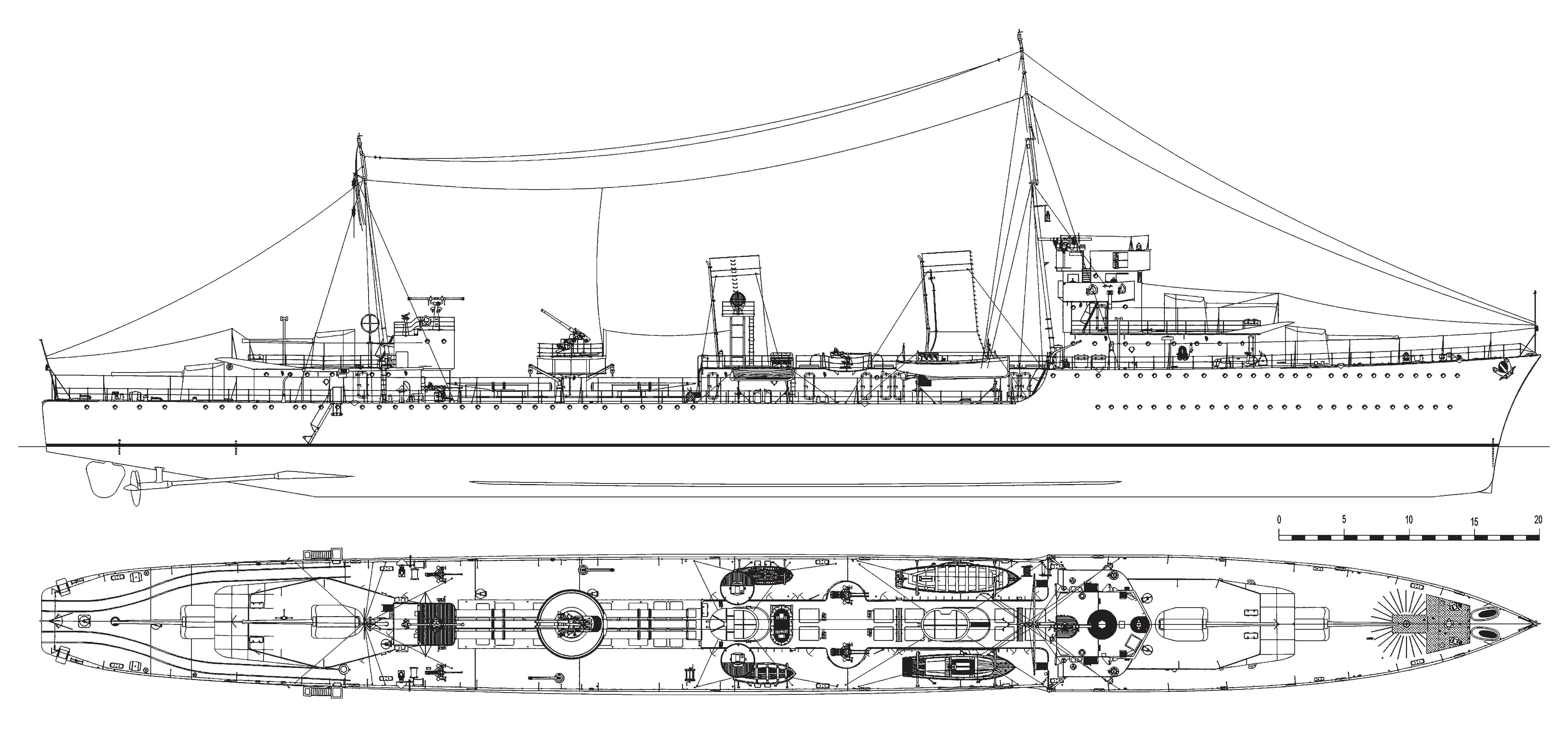 Profile & plan of Yugoslavian large destroyer Dubrovnik Српски (ћирилица): План и профил југословенског великог разарача Дубровник